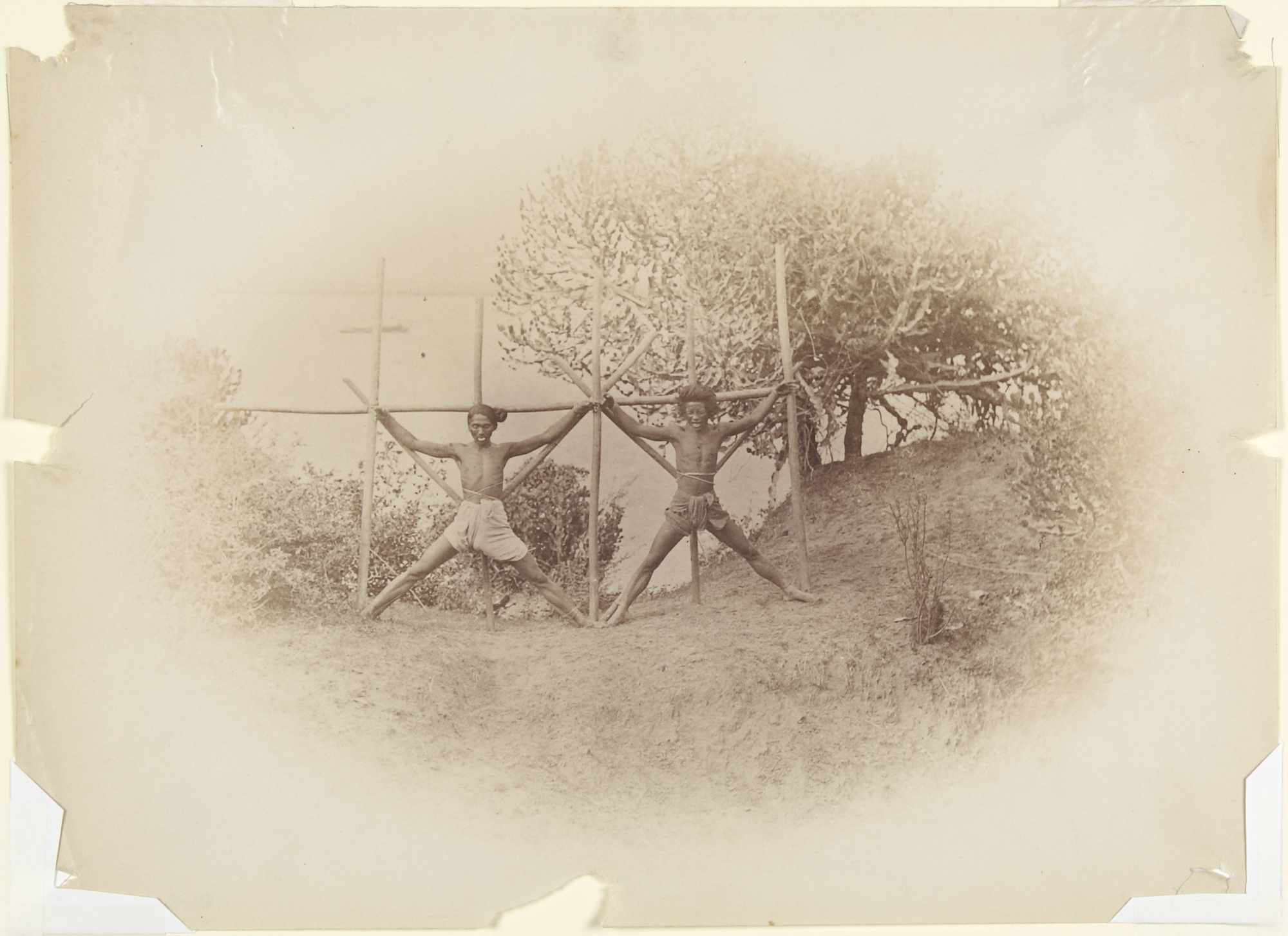 Burmese Dacoits Readied for Execution